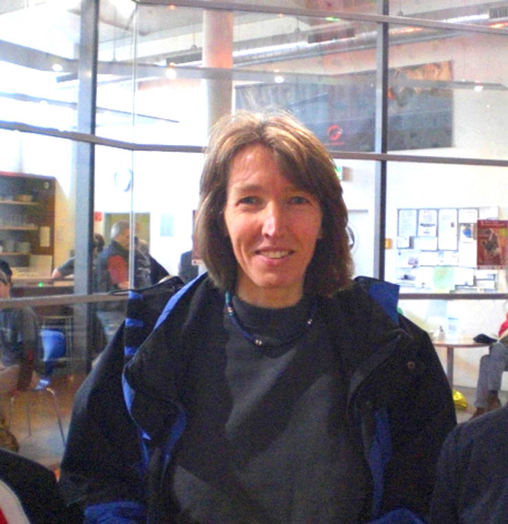 Andrea Eisenhut first woman ever who climbed UIAA degree IX.